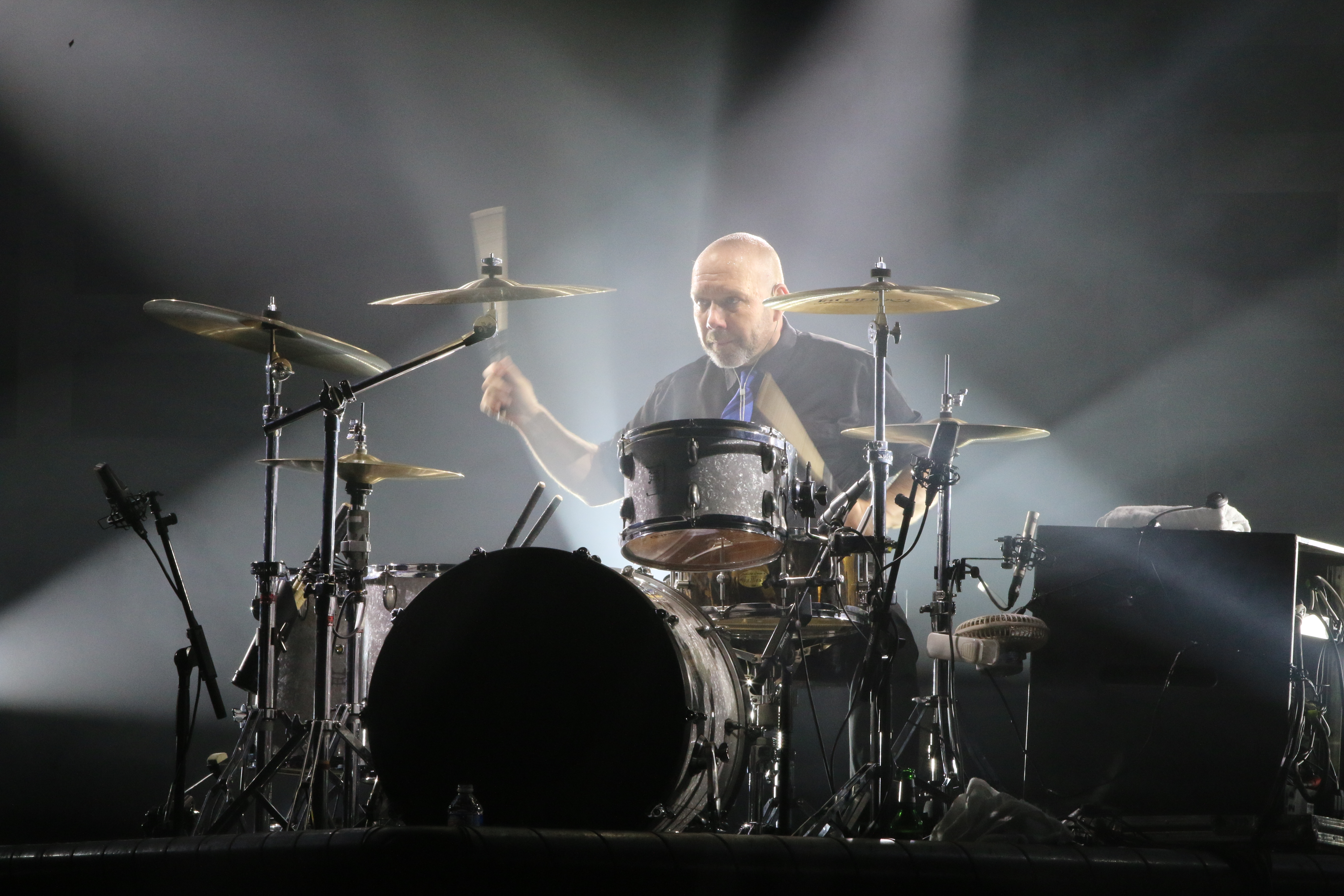 Eisbrecher at the Zelt-Musik-Festival in Freiburg im Breisgau on July 17th, 2016.